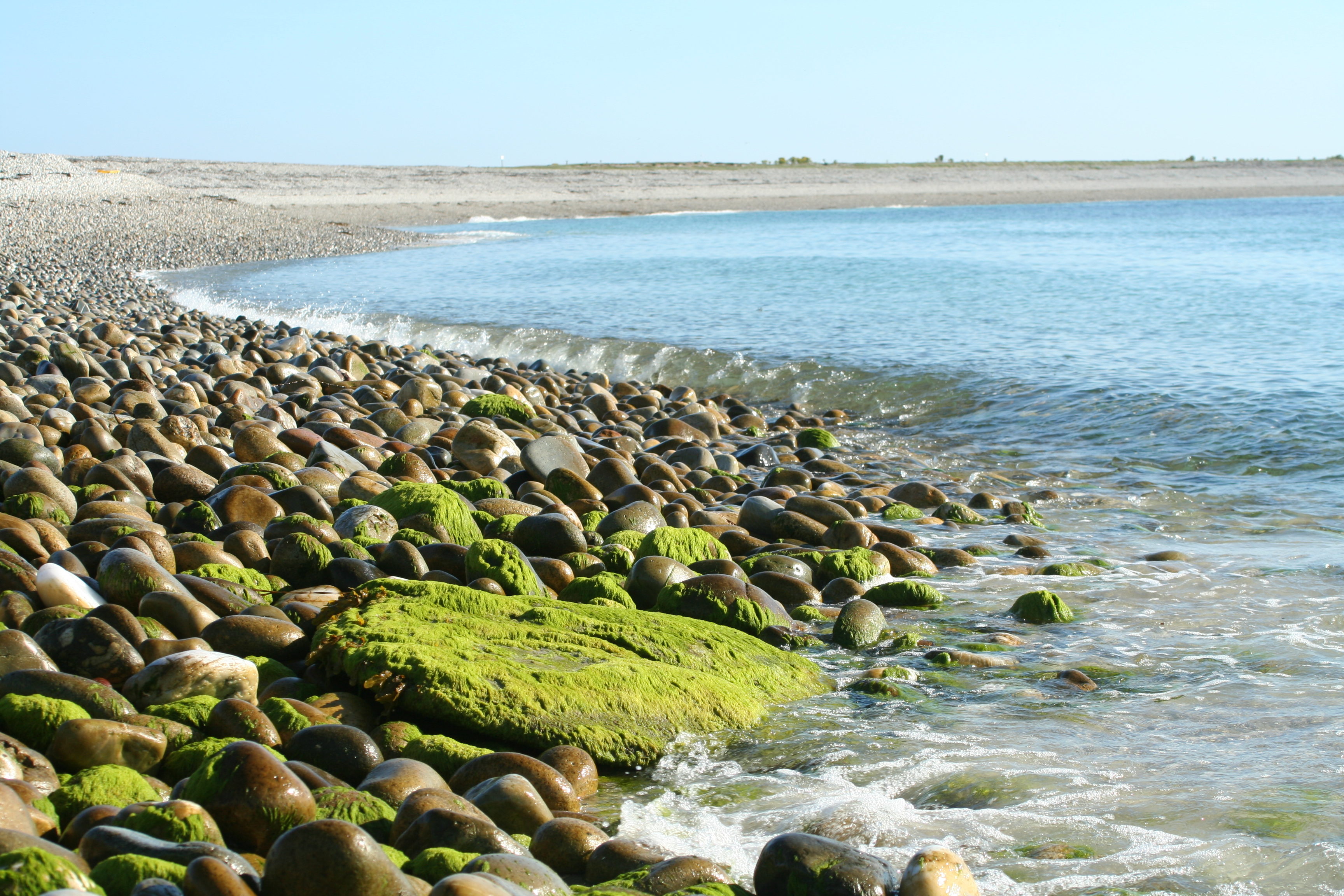 Coastline of Beniguet island as seen from its north-eastern point.